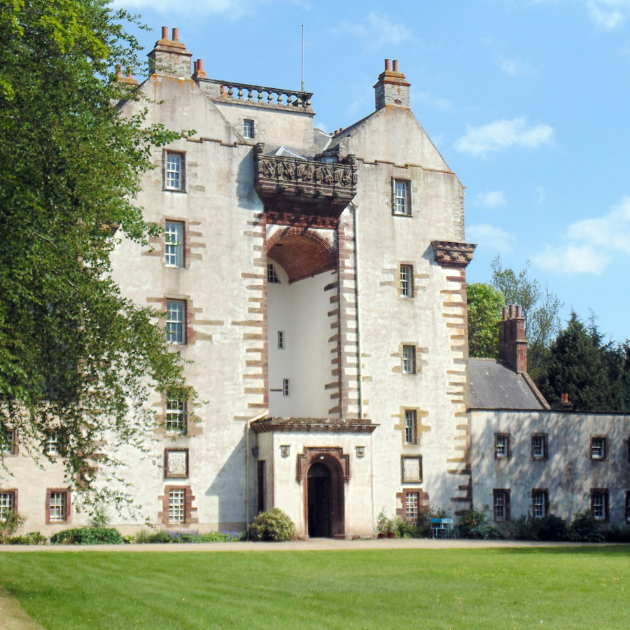 Craigston Castle - Self Catering / Bed & Breakfast Accommodation, Aberdeenshire Scotland